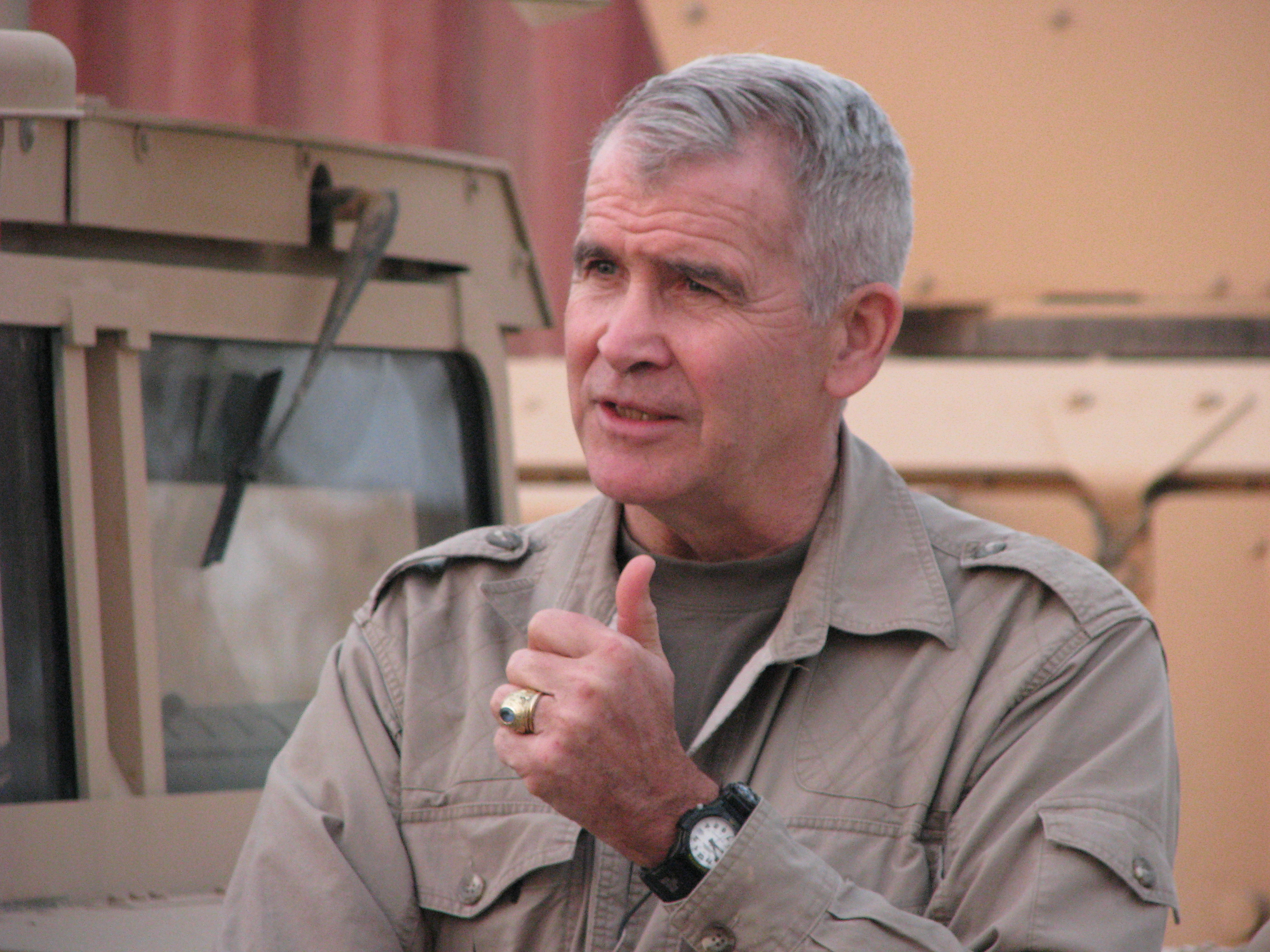 Oliver North during an interview at FOB Kalsu in Iraq.